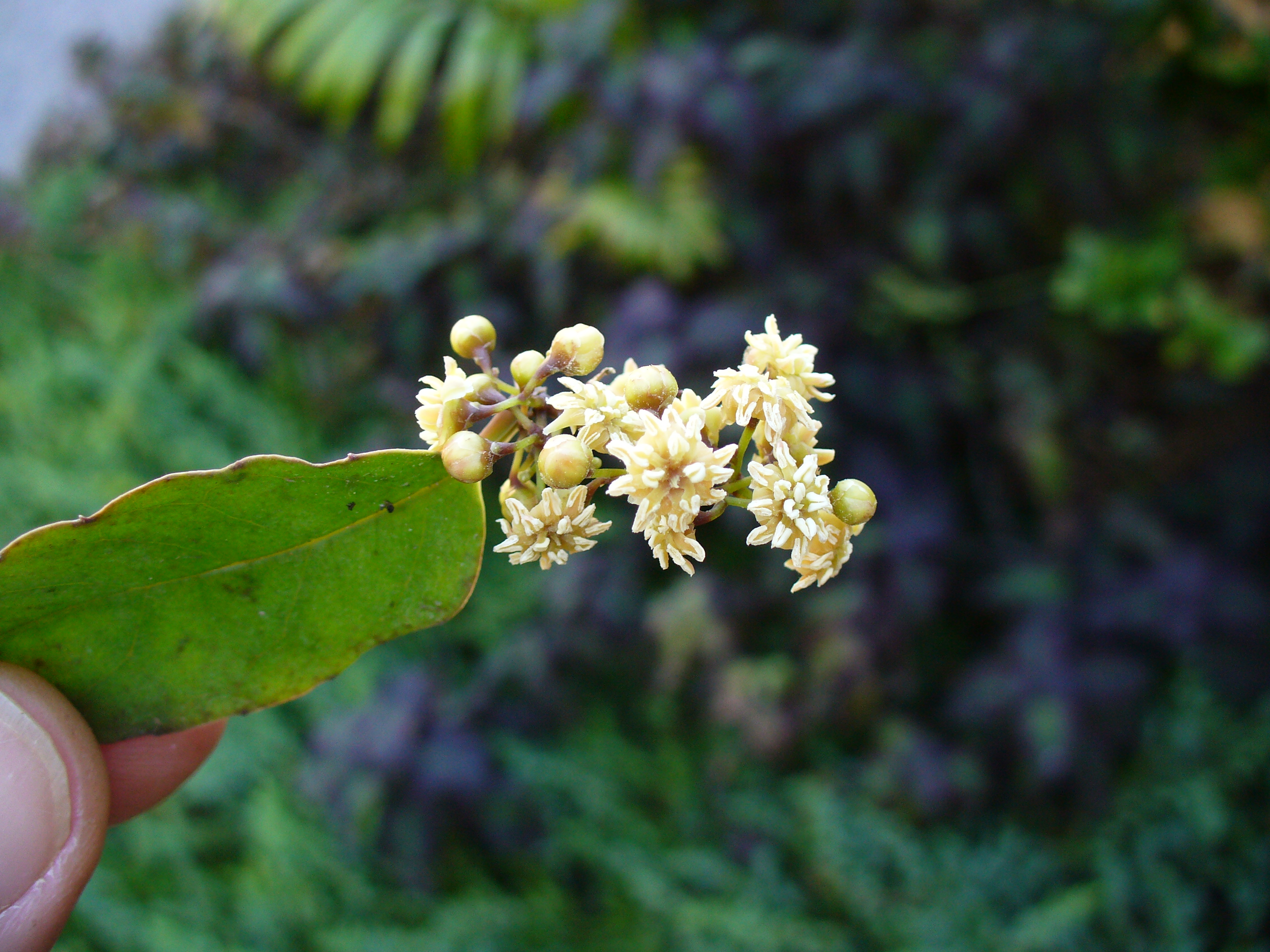 Part of a male plant of Amborella trichopoda, Wertheim Conservatory, Florida International University, Miami, Florida, USA.